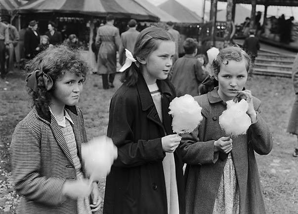 Teitl Cymraeg/Welsh title: Ffair Glamai Y Bala Ffotograffydd/Photographer: Geoff Charles (1909-2002) Dyddiad/Date: May 25, 1952. Cyfrwng/Medium: Negydd ffilm / Film negative Cyfeiriad/Reference: (gch02952) Rhif cofnod / Record no.: 3368581 Rhagor o wybodaeth am gasgliad Geoff Charles yn Llyfrgell Genedlaethol Cymru More information about the Geoff Charles Collection at the National Library of Wales Mae ffotograffau Geoff Charles hefyd yn rhan o Broject Europeana Libraries Geoff Charles' photographs also form part of the Europeana Libraries Project